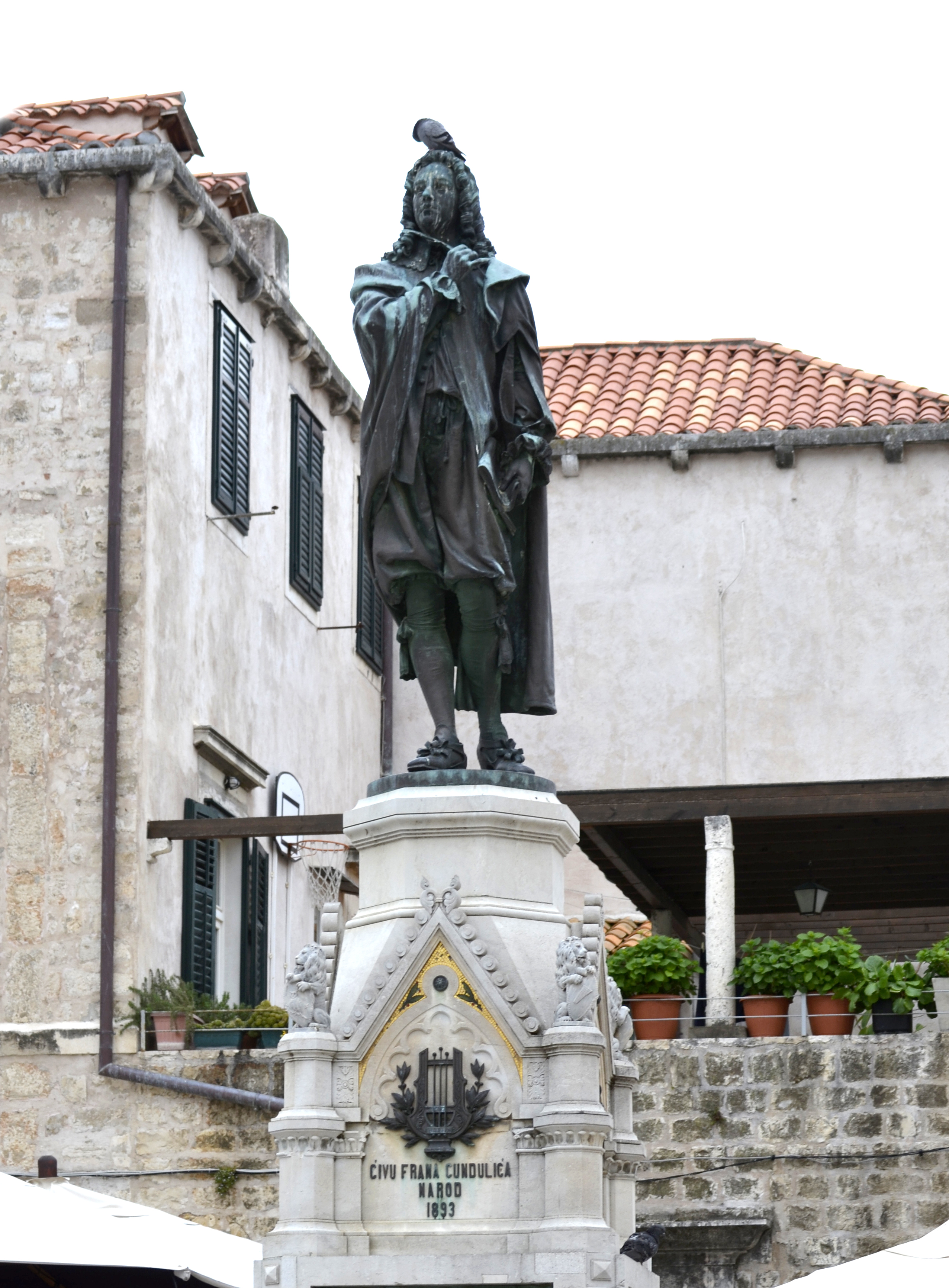 Statue of Ivan Gunduli on the main city square in Dubrovnik